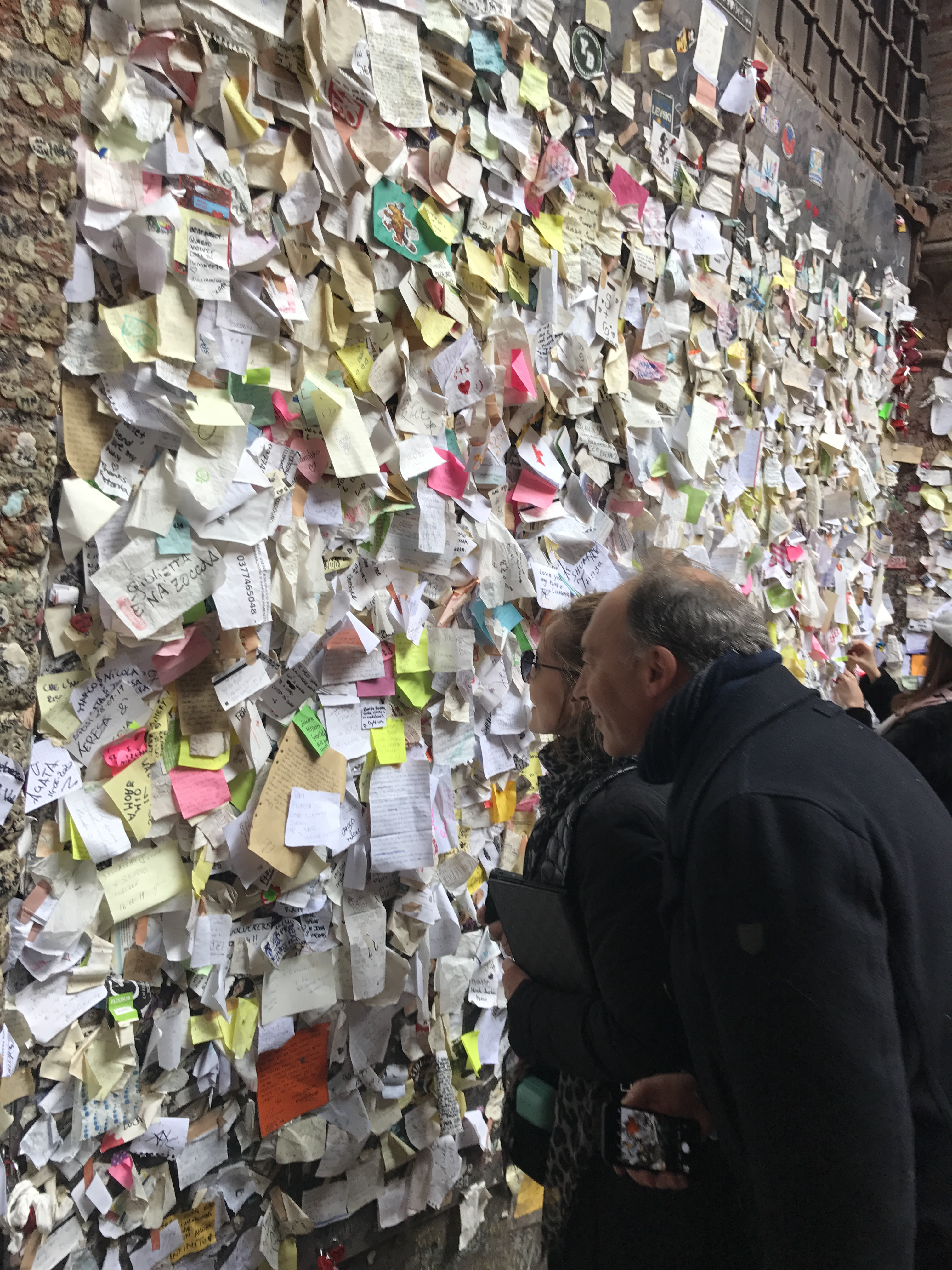 A wall next to Juliets balcony in Verona, Italy. The letters are placed there by the public and contain love messages.